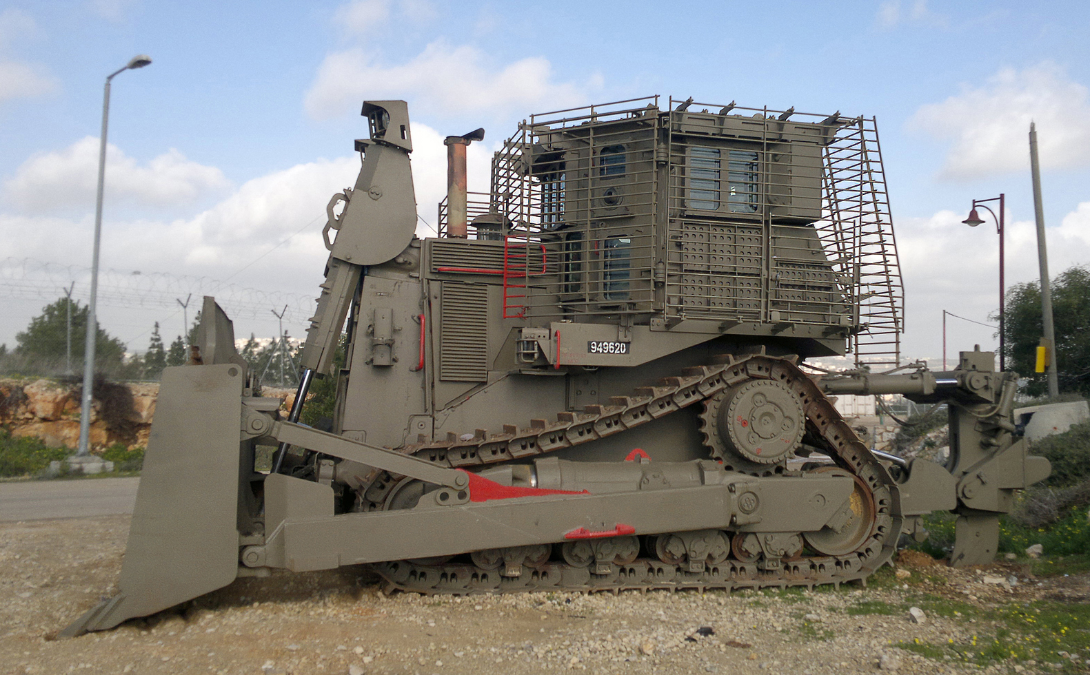 IDF Caterpillar D9 armored bulldozer, D9R variant with slat armor